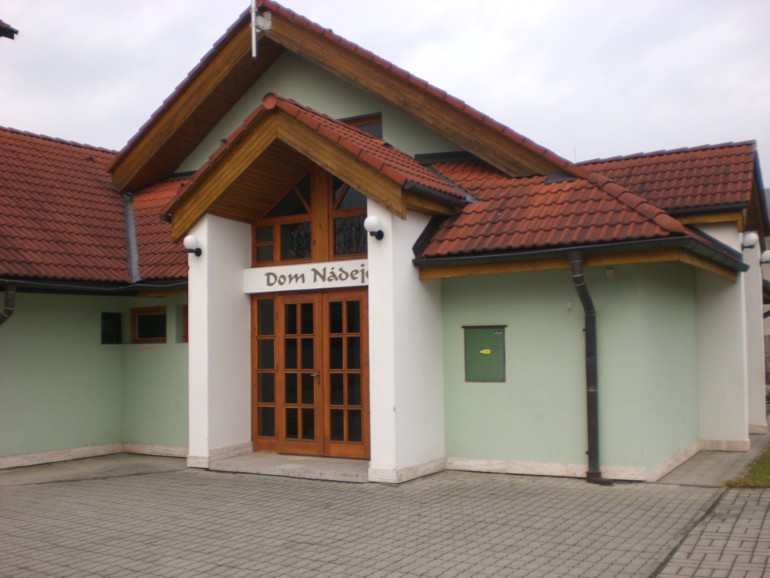 House of Hope